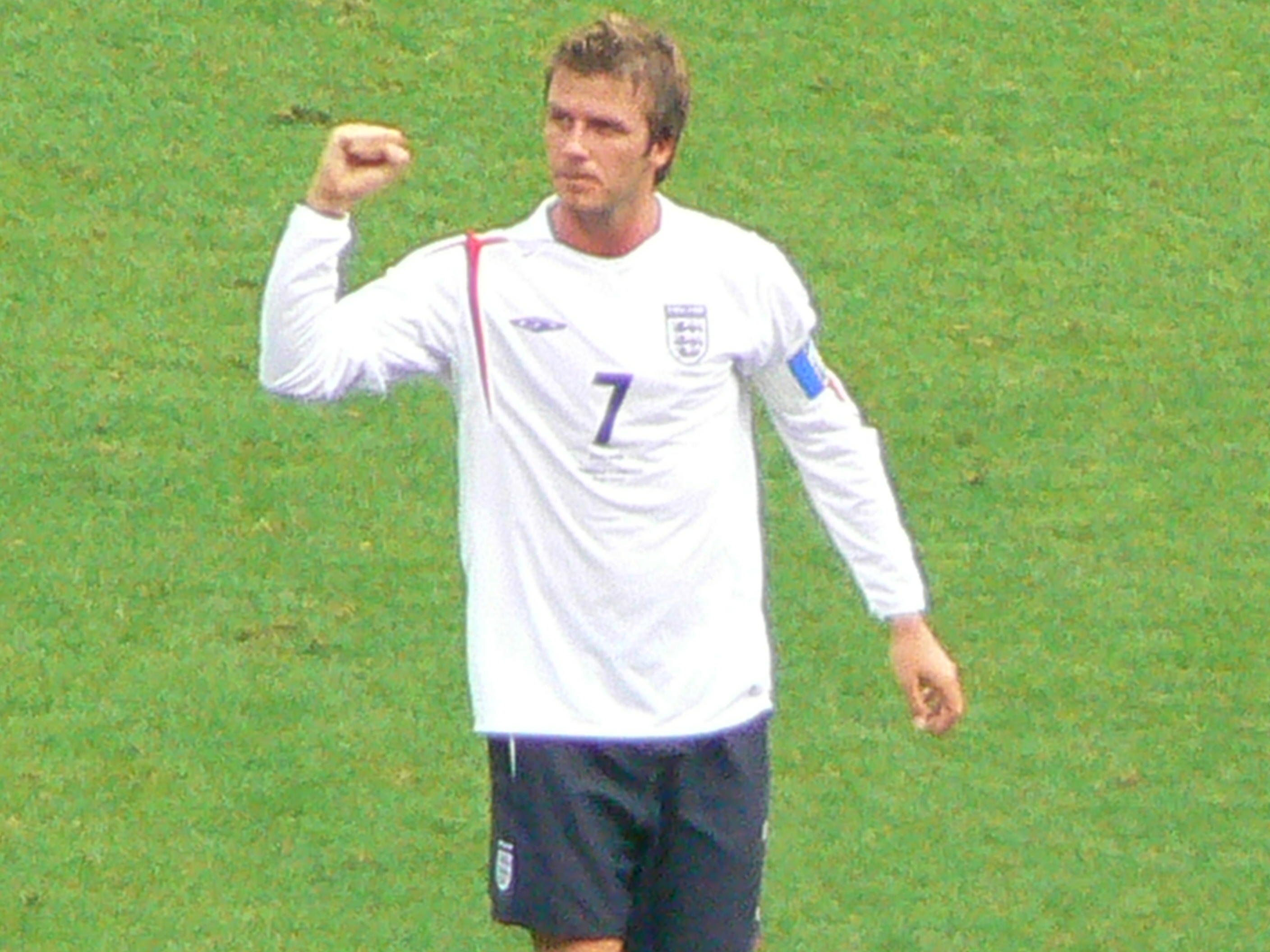 David Beckham, England, own work (by ger1axg).